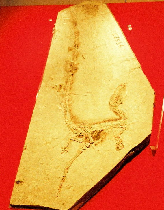 Fossil of Sinosauropteryx prima, the first “feathered” dinosaur. Its primitive feathers could be seen clearly on the head, back, and tail. The length of the fossil is about 130 cm.